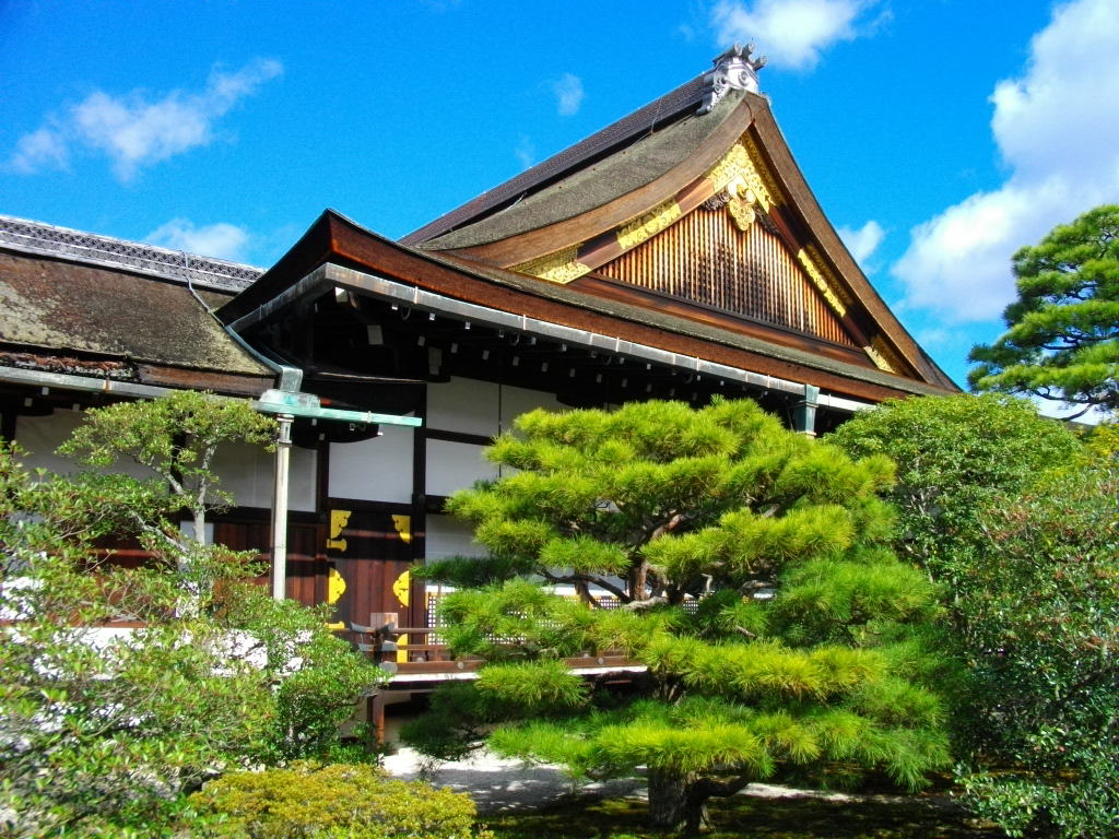 Kogosho